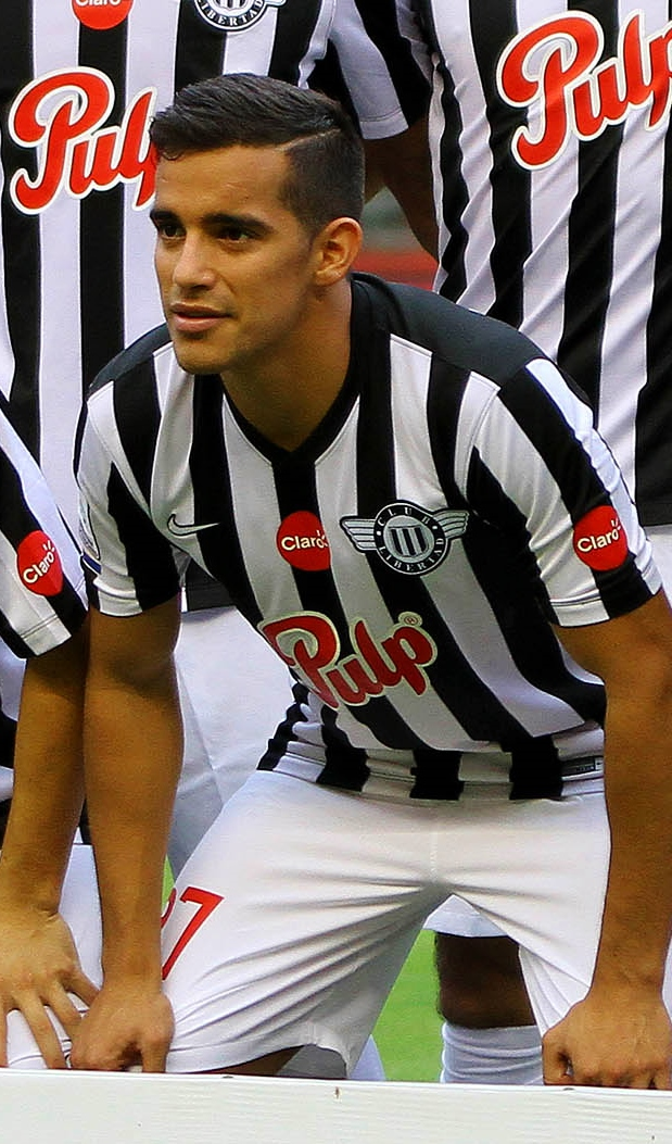 Jorge Daniel González Marquet.Guayaquil, Martes 3 de marzo del 2015 (ANDES).-Libertad de Paraguay enfrenta al Barcelona de Ecuador en el partido jugado en el estadio Monumental por Copa LibertadoresFoto:César Muñoz/ANDES